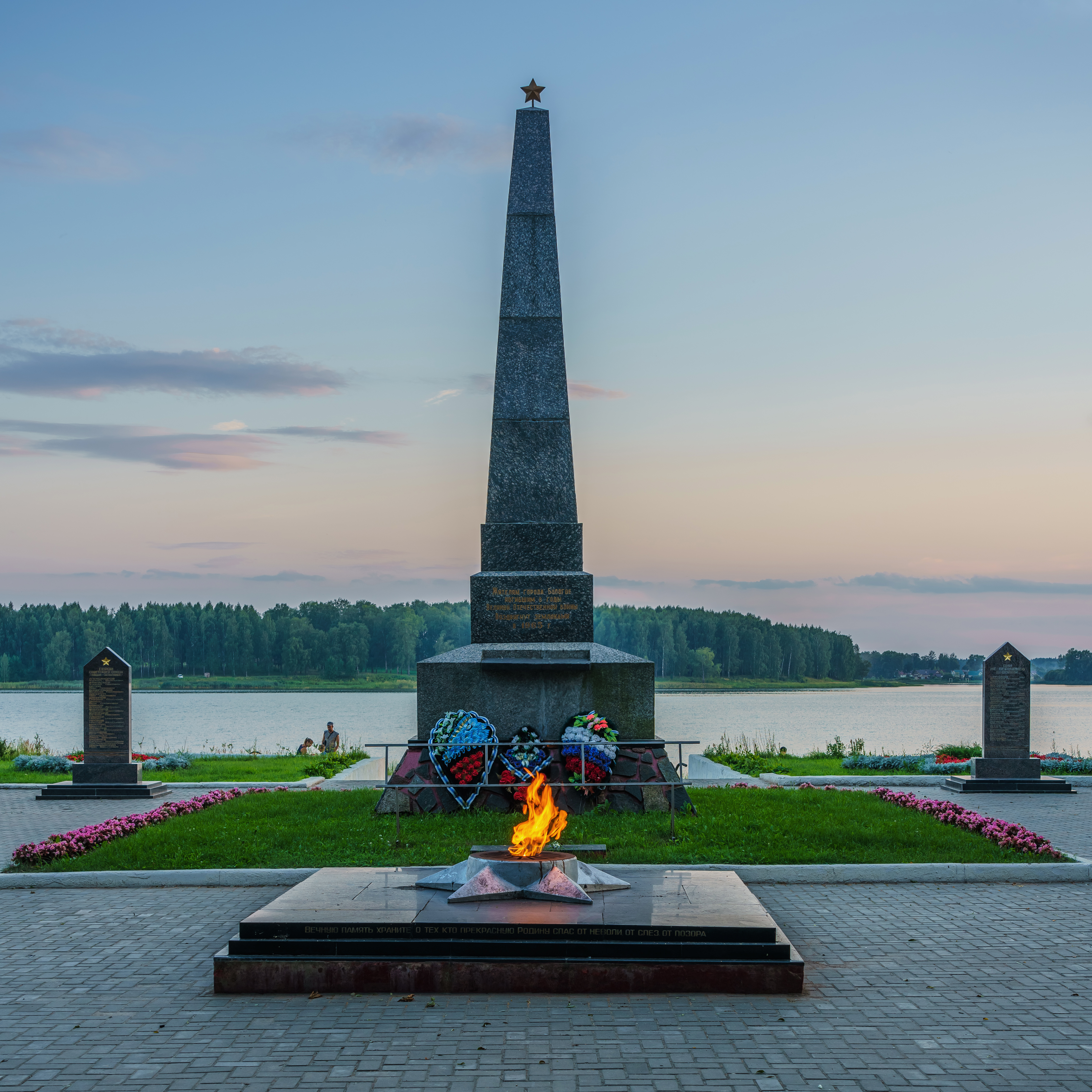 War memorial with Eternal flame in Bologoe, Tver Oblast, Russia.